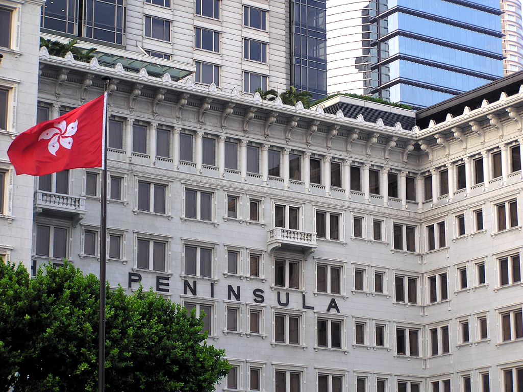 The Peninsula, Tsim Sha Tsui, Hong Kong